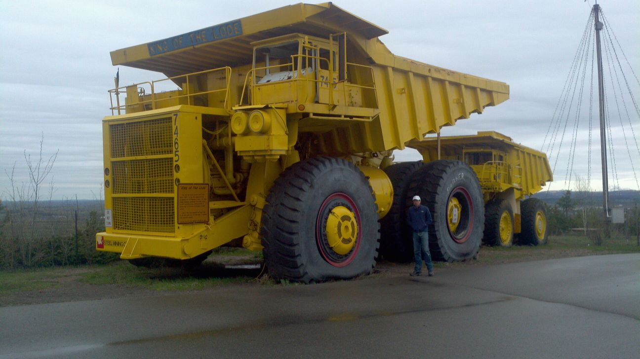 Mineview in the Sky